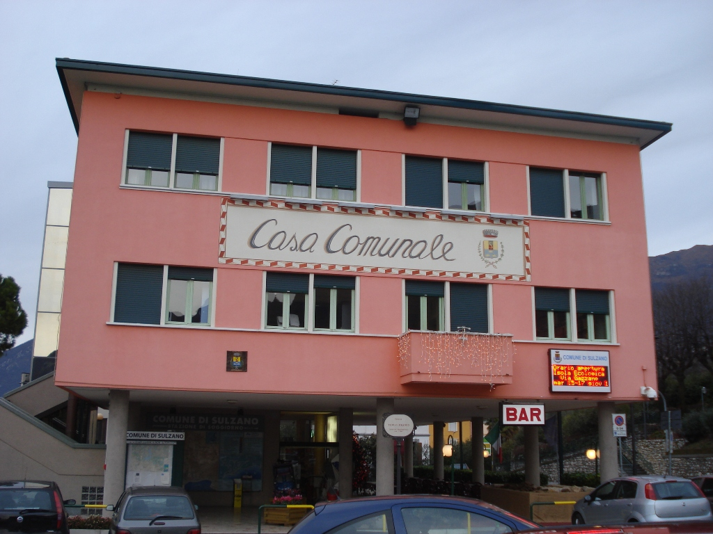 Town hall. Sulzano, Val Camonica